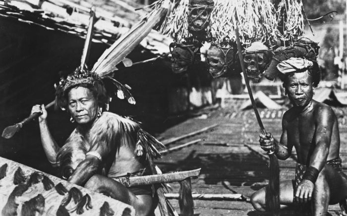 Ibu Dayak warriors from Longnawan, North Borneo.